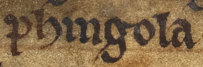 An excerpt from folio 40r of British Library MS Cotton Julius A VII (the Chronicle of Mann). The excerpt reads in Latin "Phingola". The excerpt concerns Findguala Nic Lochlainn, wife of Guðrøðr Óláfsson, King of Dublin and the Isles (died 1187).